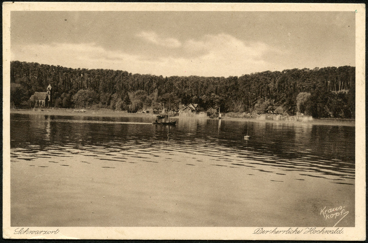 Schwarzort (Juodkrantė) .Curonian Spit. Photographer - Fritz Krauskopf from Königsberg (Karaliaučius, Калининград)